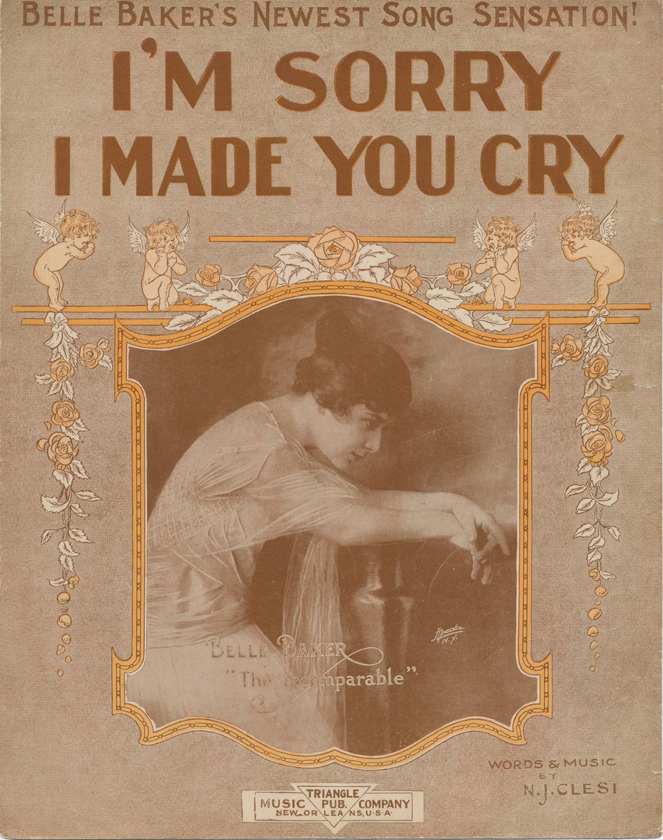 "I'm Sorry I Made You Cry" sheet music cover. With photo of singer Belle Baker.